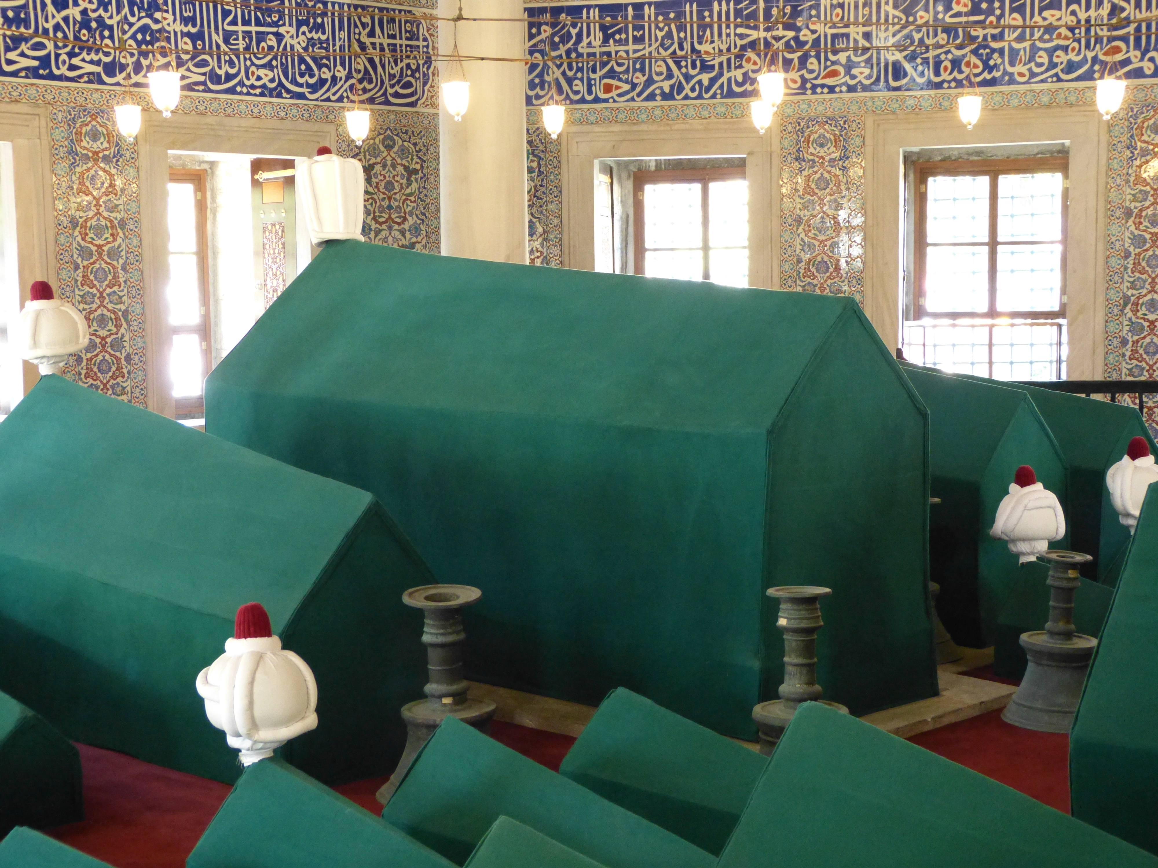 Türbe (Tomb) of Sultan Murad III